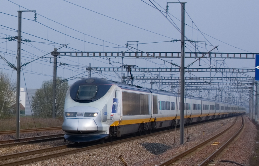 Class 373 in altered SNCF livery at Haute-Picardie Station. More high-speed railways will be built to curb transporting pollution.